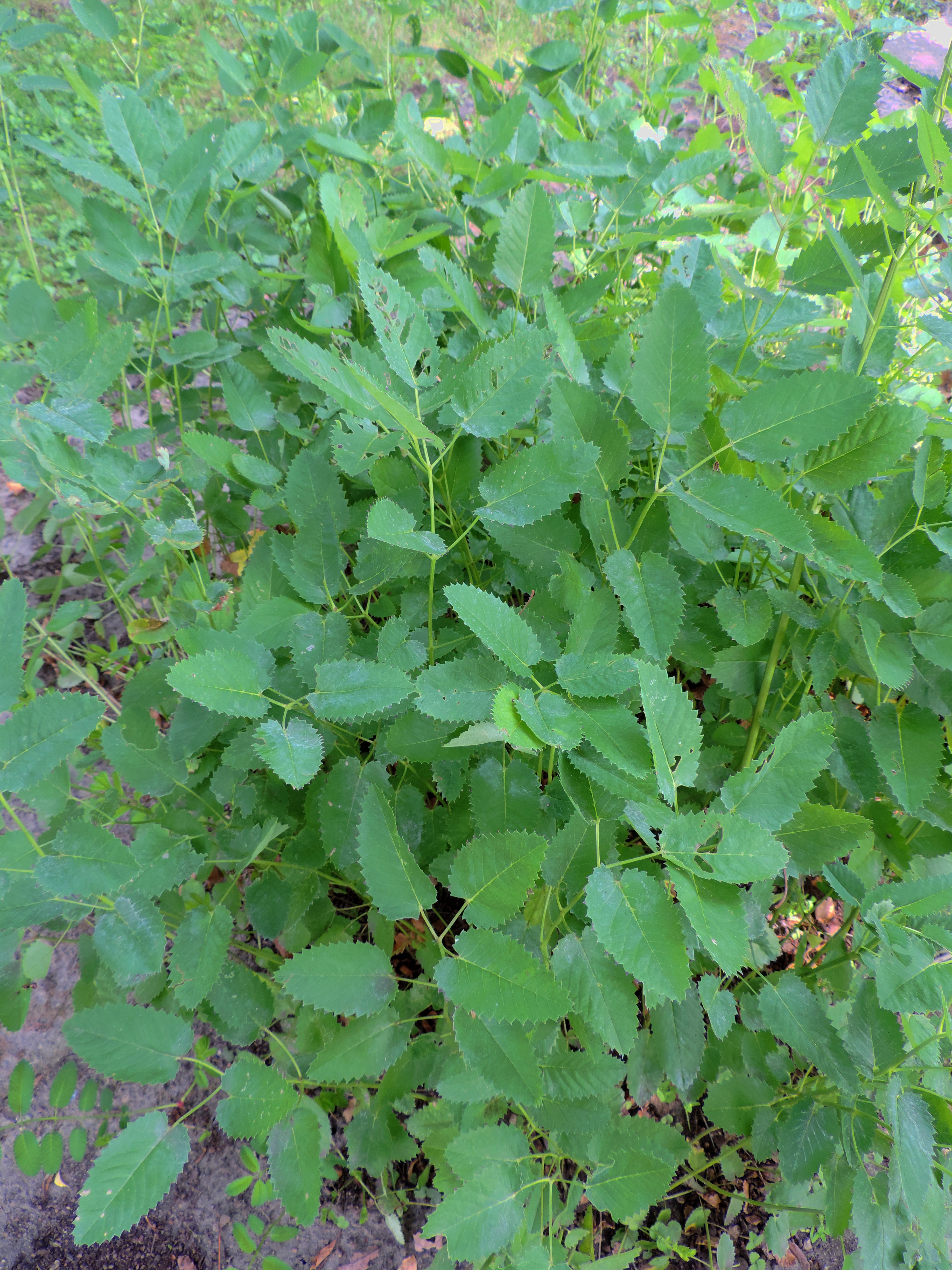 Sanguisorba canadensis